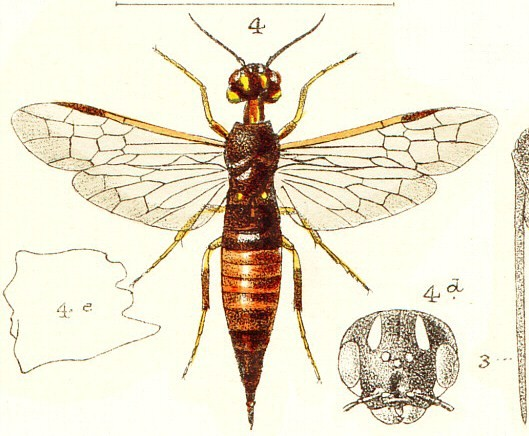 Xiphydria prolongata (Symphyta)